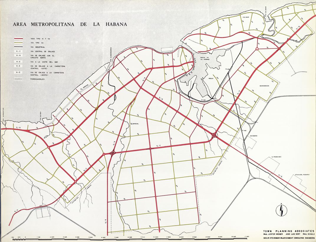 Havana Plan Piloto. New road system in the metropolitan area of Havana. Havana, Cuba. publication date1959